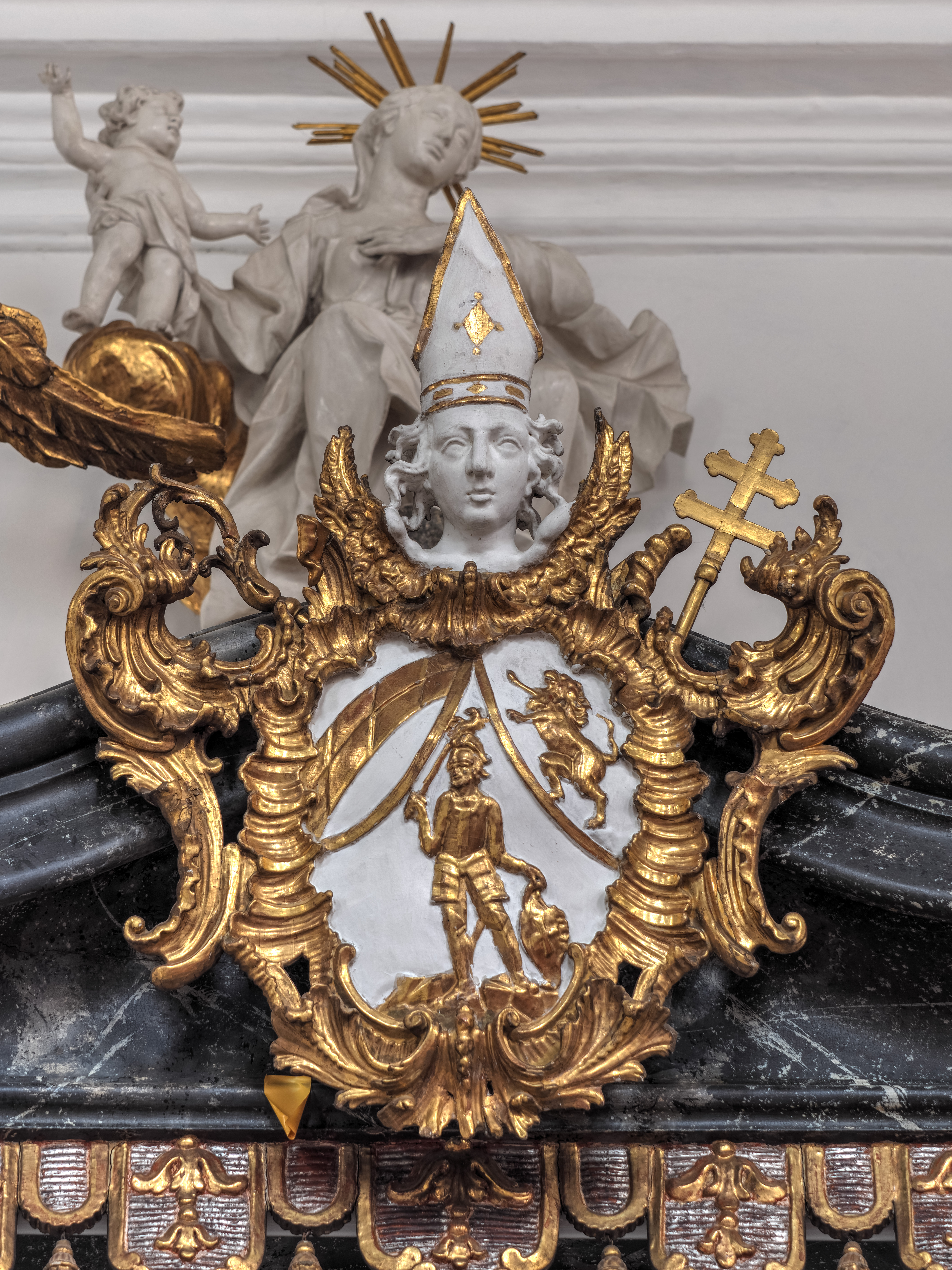 Coat of arms above the pulpit in the Catholic parish church in St.Jakobus Burgwindheim